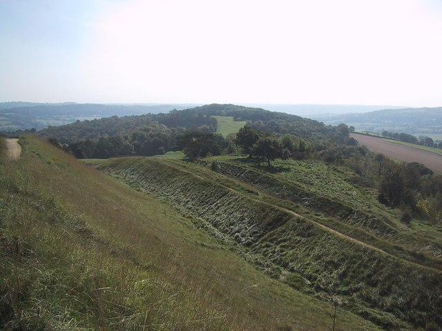 Atlas of Hillforts 0764 The Banks and Ditches of the Hillfort